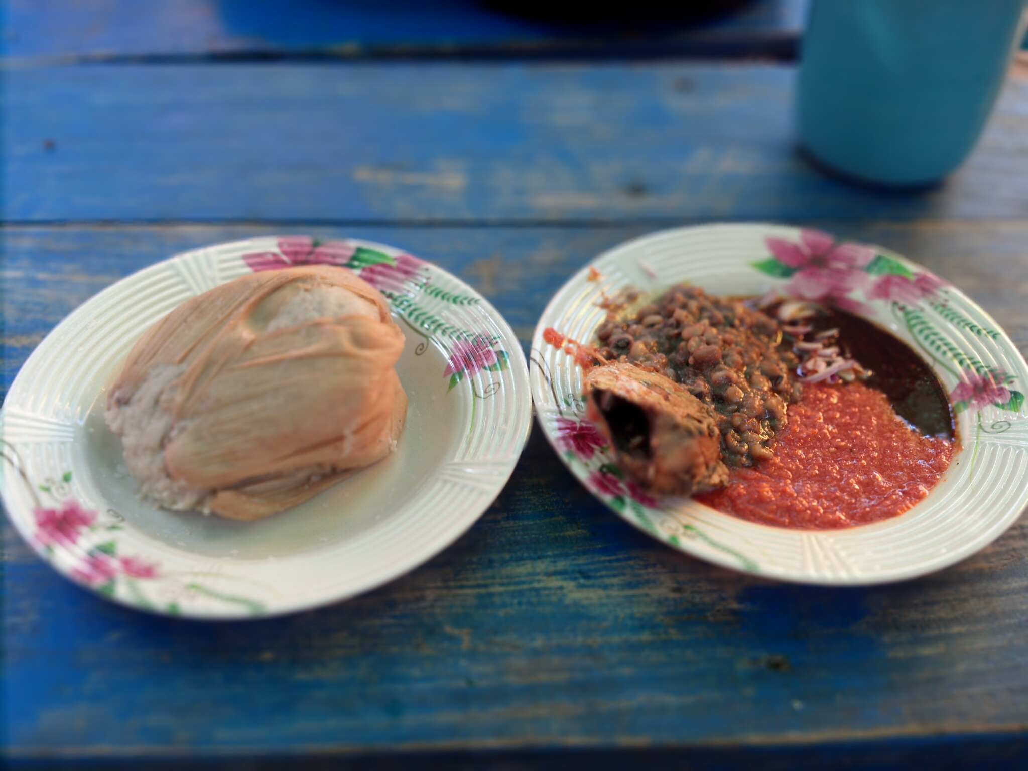 Ga Kenkey is popular among the Gas in Accra. It is made from Maize dough. It goes perfectly with hot pepper and shito. This is an image of food from Ghana